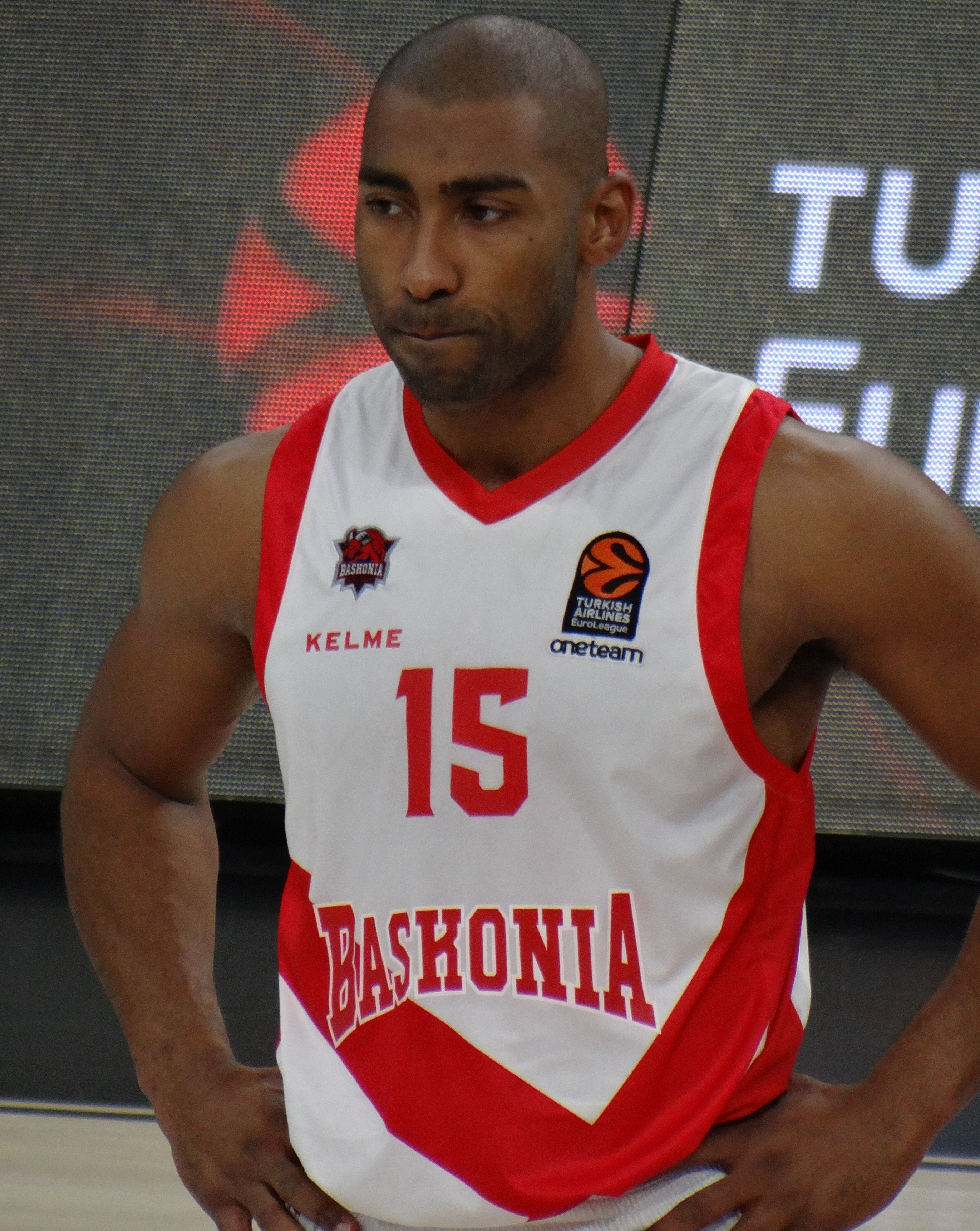 Jayson Granger 15 - Saski Baskonia 20171215